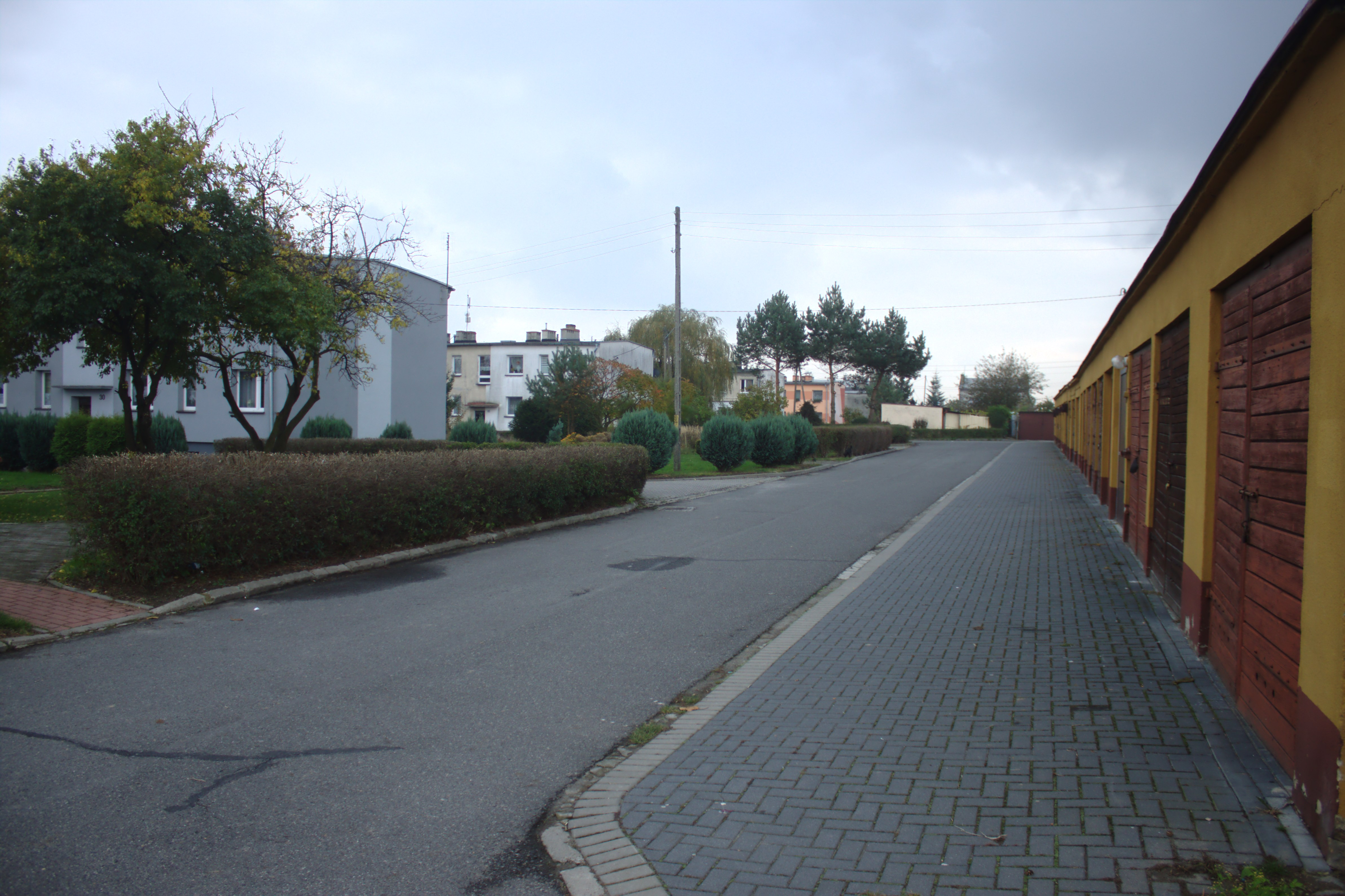 Głubczyce-Sady residential area, Poland